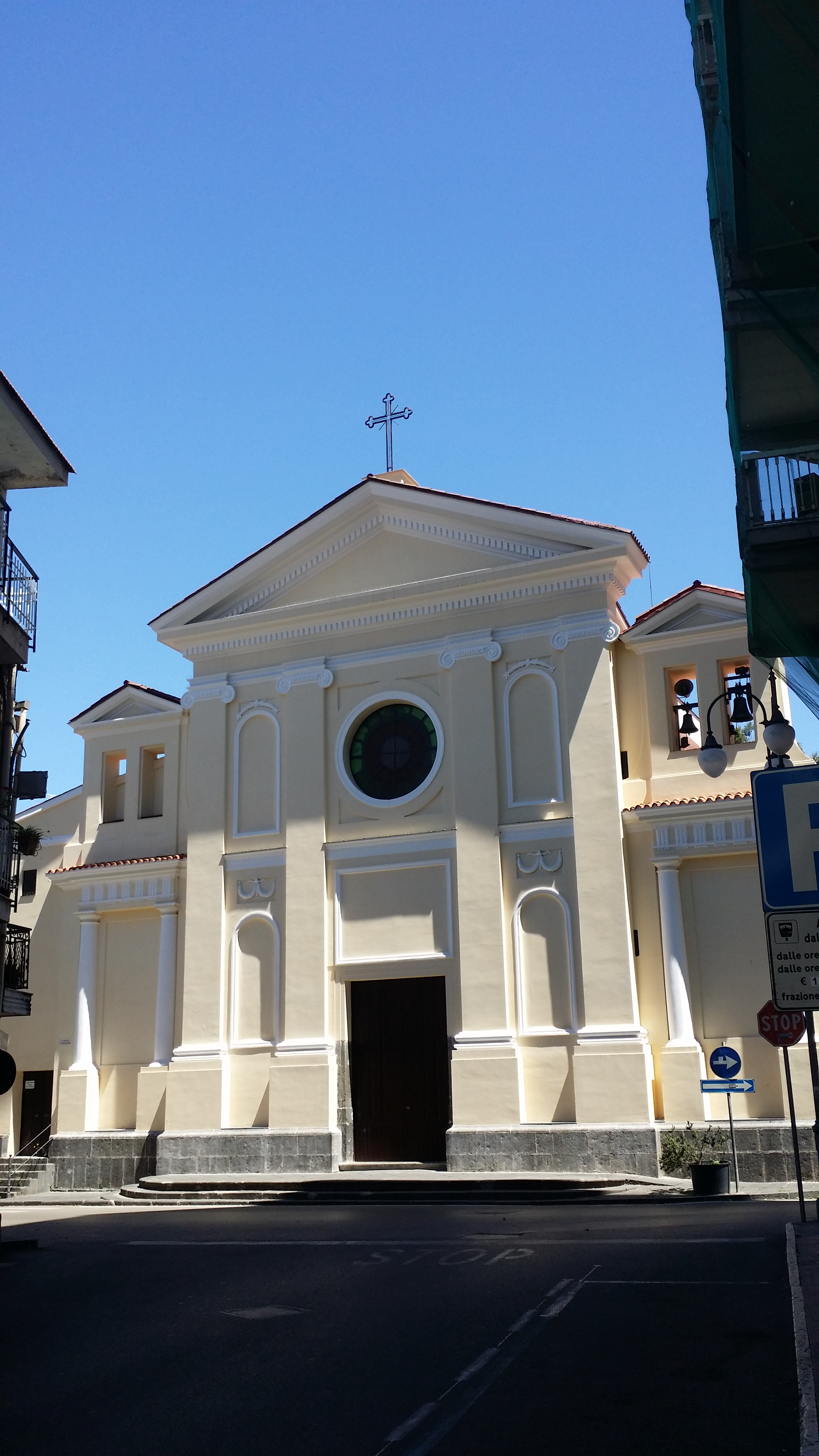 Facade of the church of Santa Maria del Carmine-Angri (Sa)